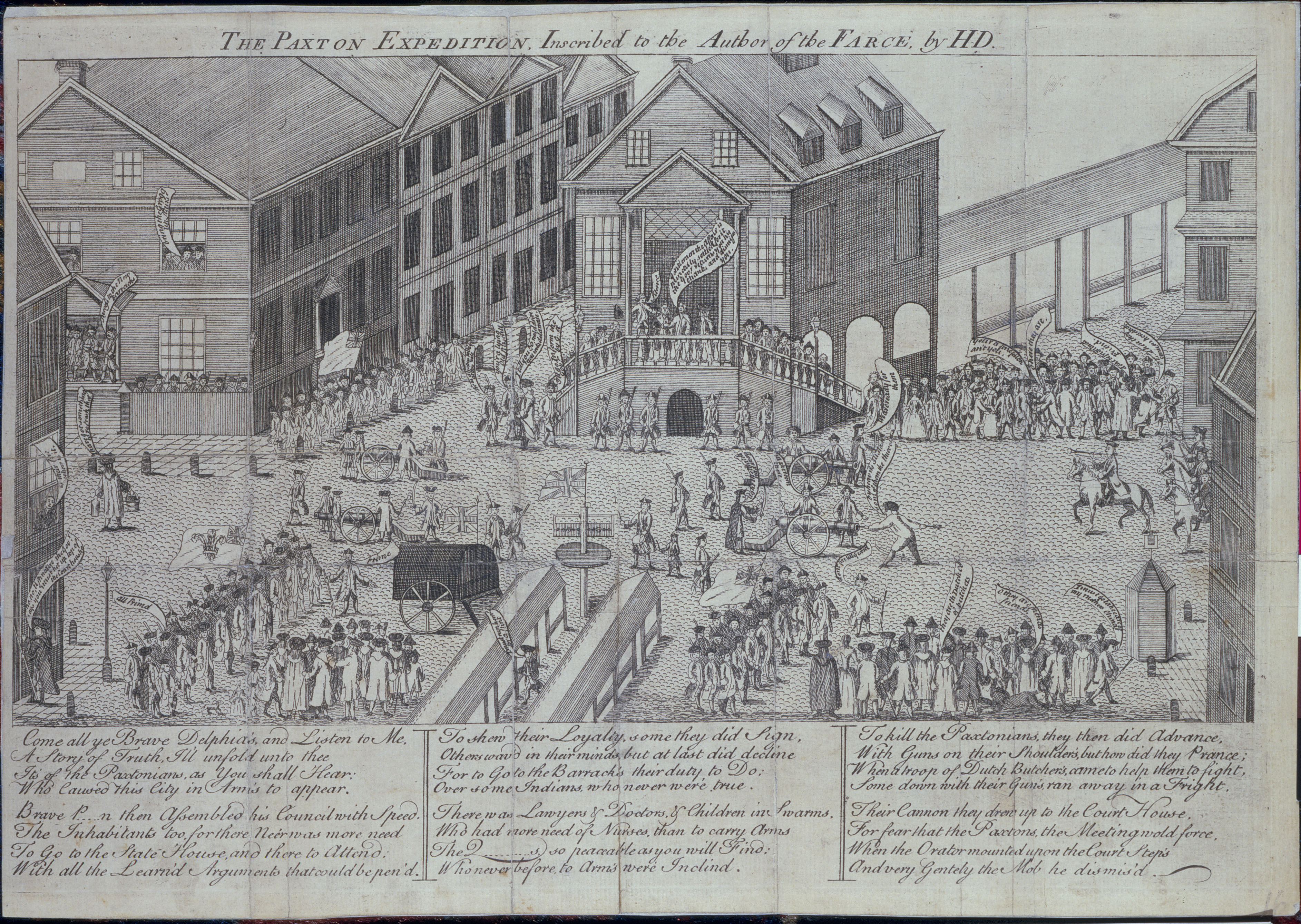 Preparations in Philadelphia to prepare for the arrival of the Paxton Boys. Print by Henry Dawkins, The Paxton Expedition, published in 1764.